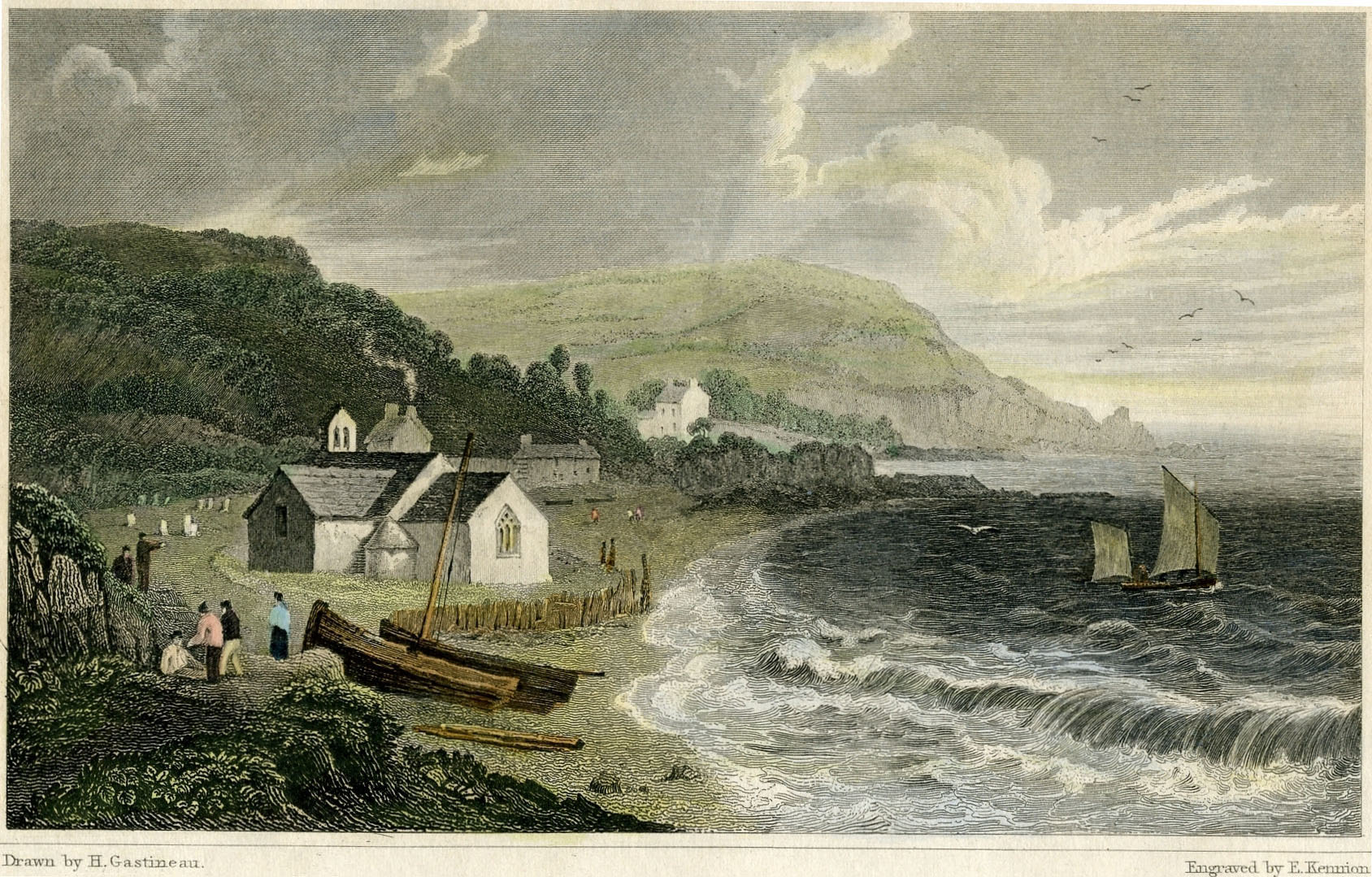 The old parish church of Dinas, Pembrokeshire, prior to its destruction in the 1830s. Scan of a hand-coloured print dated 1830. Copyright expired: from "Wales Illustrated", Jones & Co, London, 1831. Painting by Henry Gastineau (1791-1876). Engraved by Edward Kennion.